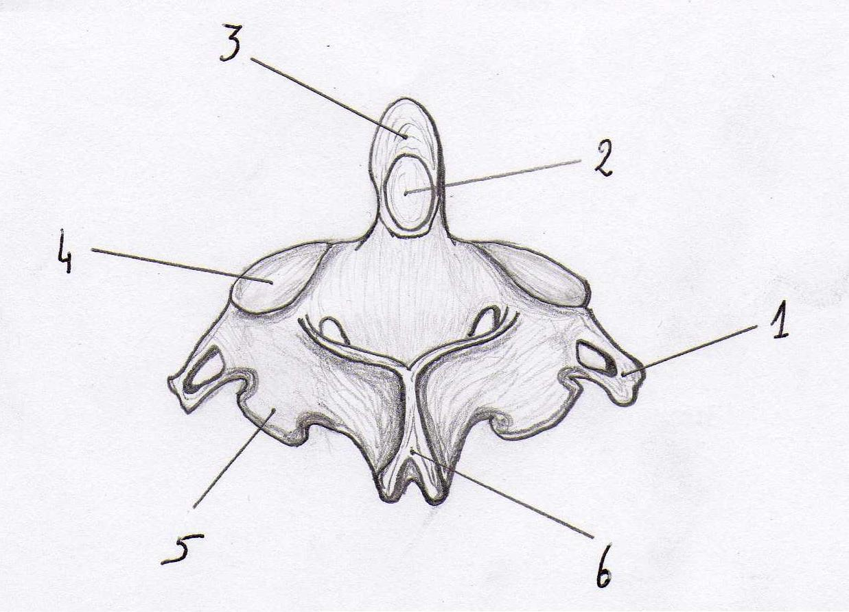 Human second cervicalis vertebra, or axis, from a posterior point of view.